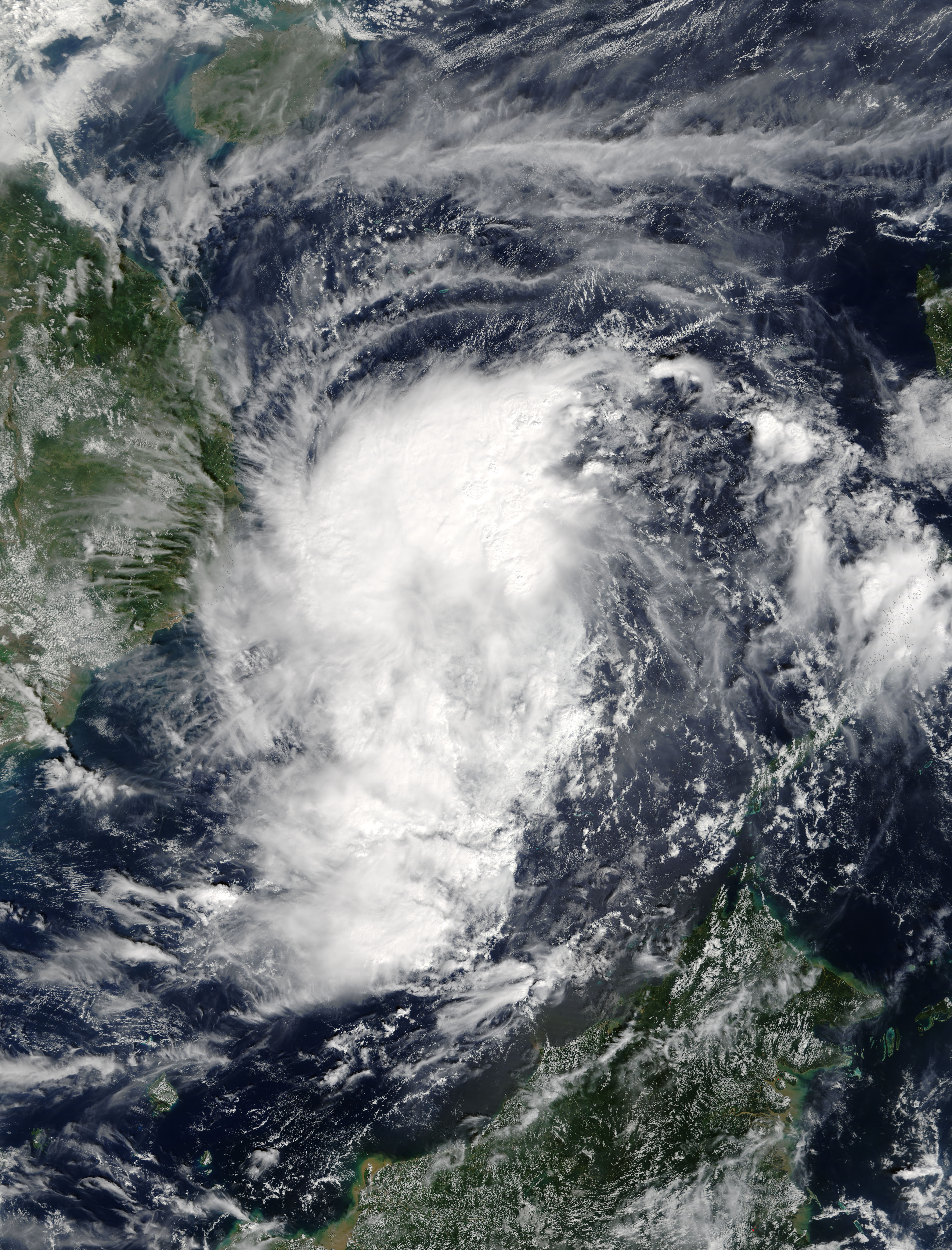 Tropical Storm Kirogi (31W) approaching Indochina